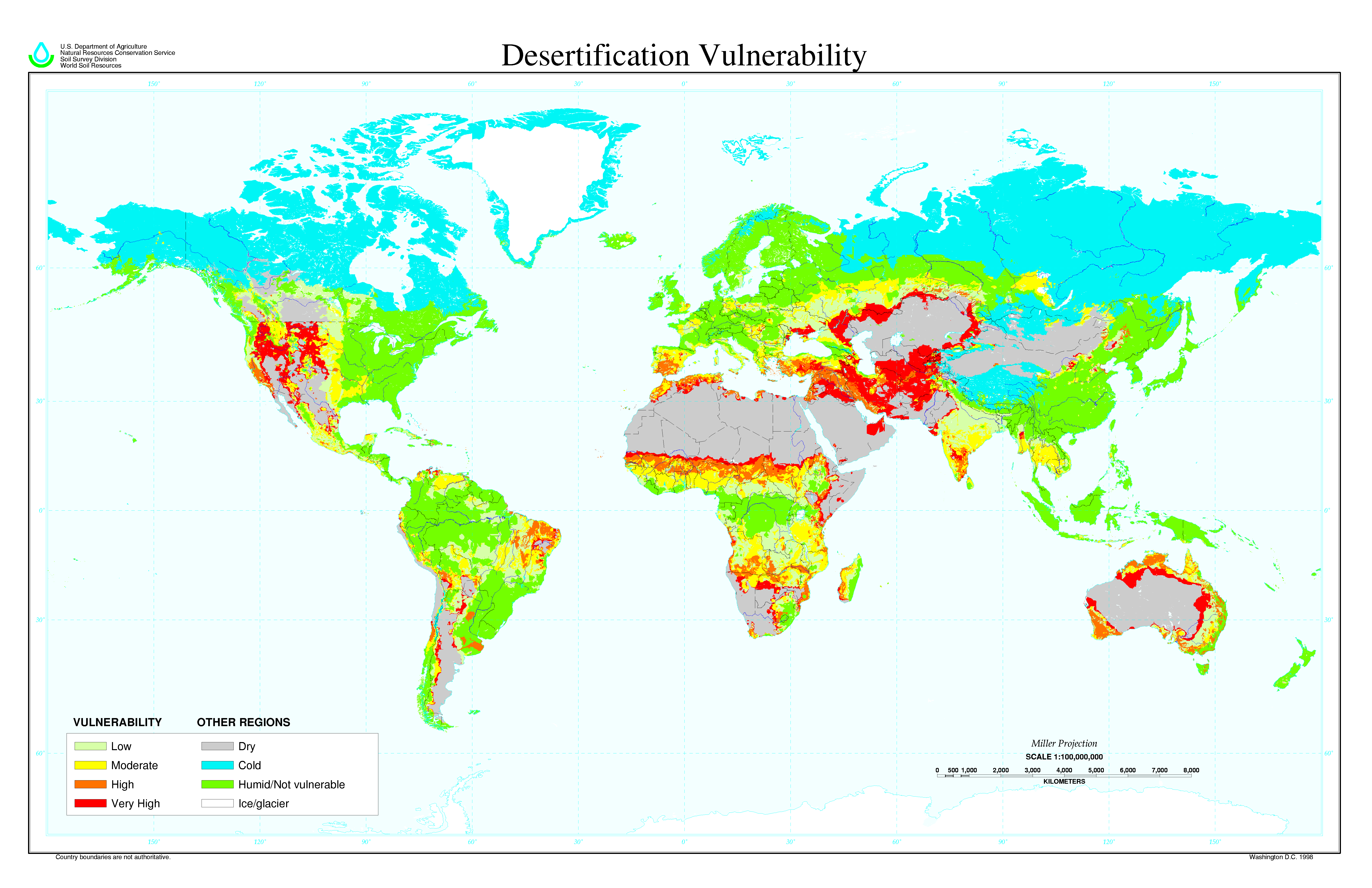 Global Desertification Vulnerability Map About the Map: The Desertification Vulnerability map is based on a reclassification of the global soil climate map and global soil map. Possible Uses of the Map: Useful for teachers and students who are interested in the global distribution of desertification vulnerability. Global modelers may be able to use the data for small scale analysis.